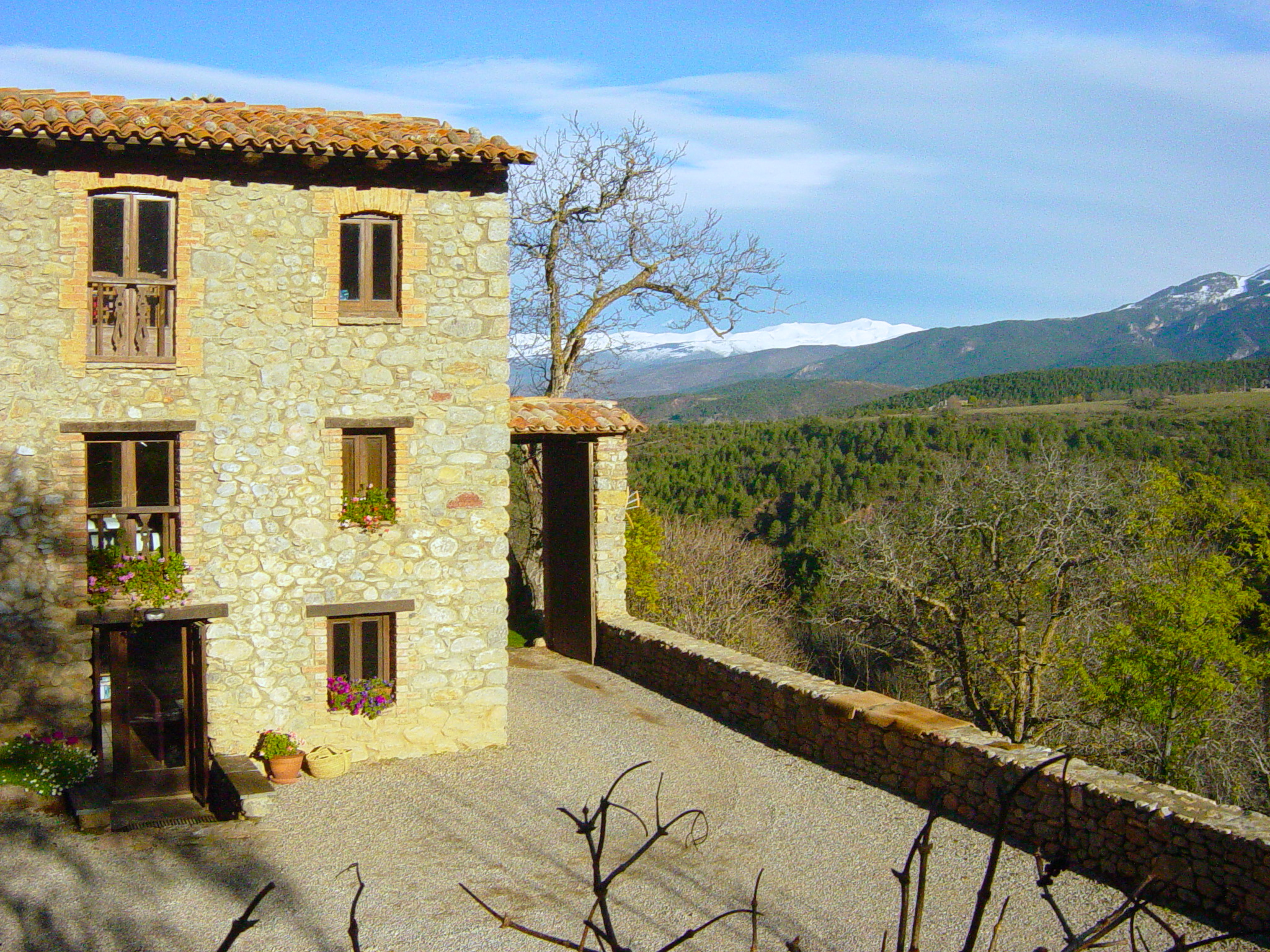 The cottage Cal Pesolet